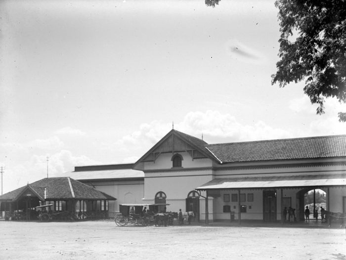 Railwaystation of the Dutch Indies Railway Company in Klaten, Java